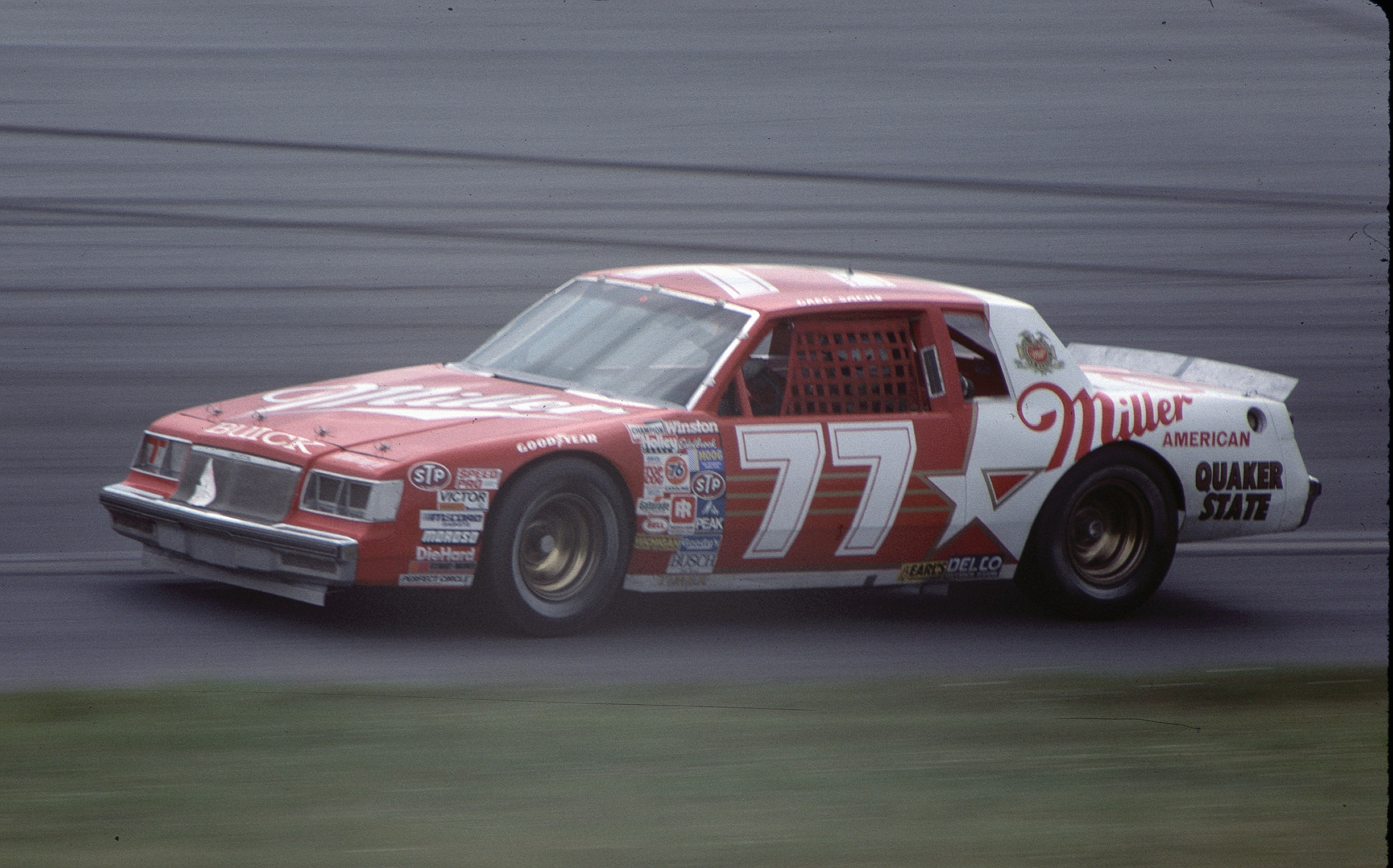 Greg Sacks 1985 Pocono Photo By Ted Van Pelt